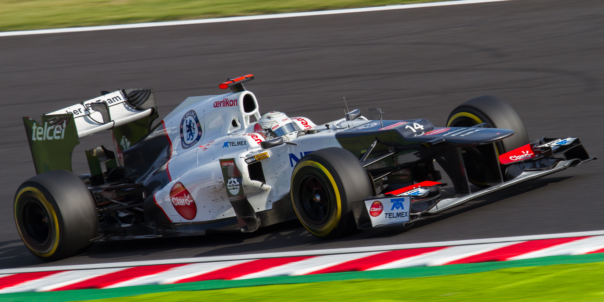 Formula One 2012 Rd.15 Japanese GP: Kamui Kobayashi (Sauber) during the second practice session on Friday.